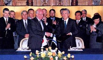 Yitzhak Rabin, Prime Minister, met Tomiichi Murayama, Prime Minister, with Yōhei Kōno, Minister for Foreign Affairs, and Makiko Tanaka, Director-General of the Science and Technology Agency, in Japan on December, 1994.(For terms of use, see 法的事項 ｜ 外務省.)